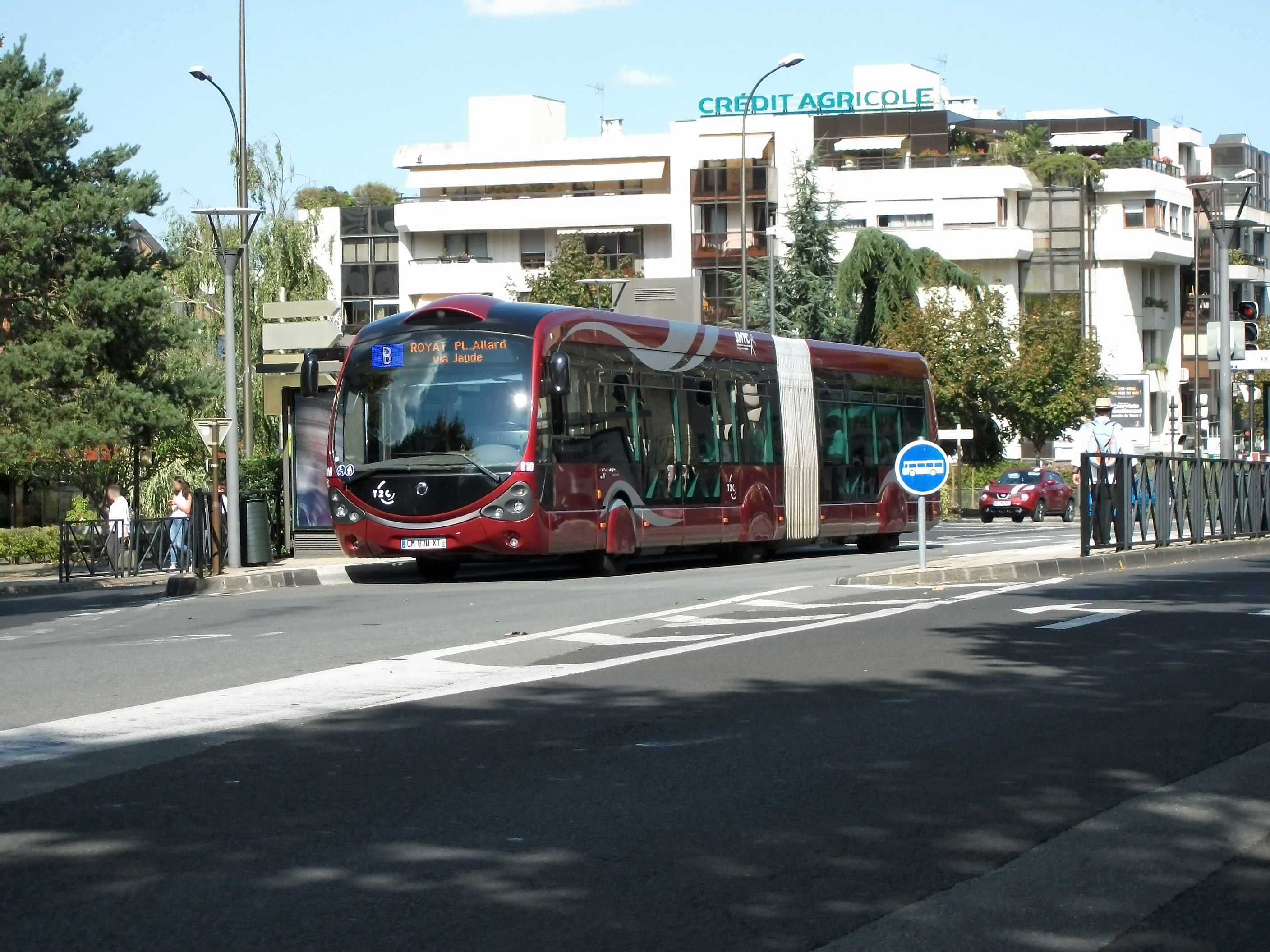 Irisbus Crealis Neo 18 leaving stop Europe on line B (Royat Pl. Allard) of T2C network, in Chamalières, Puy-de-Dôme, Auvergne, France. [9103]